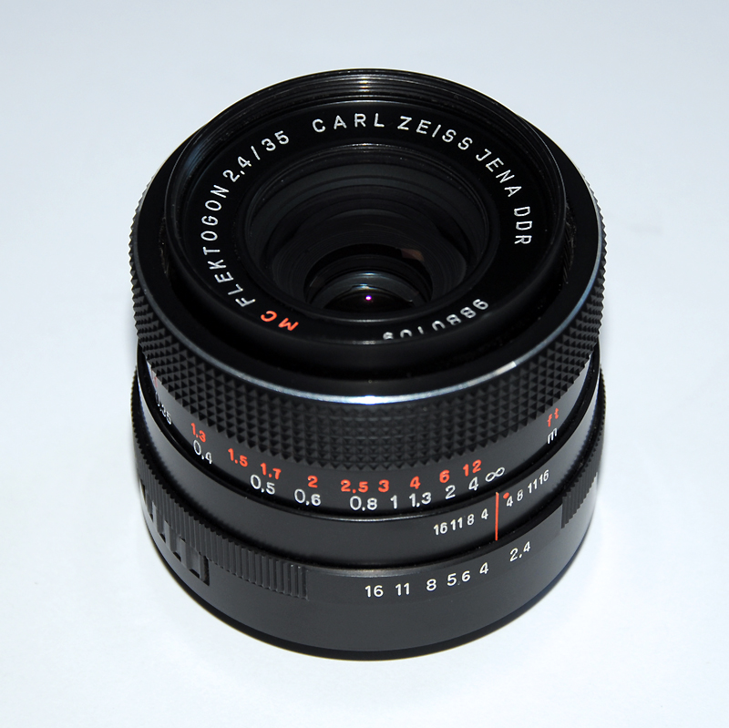 Carl Zeiss Jena, Flektogon 2.4/35mm lens (1976)